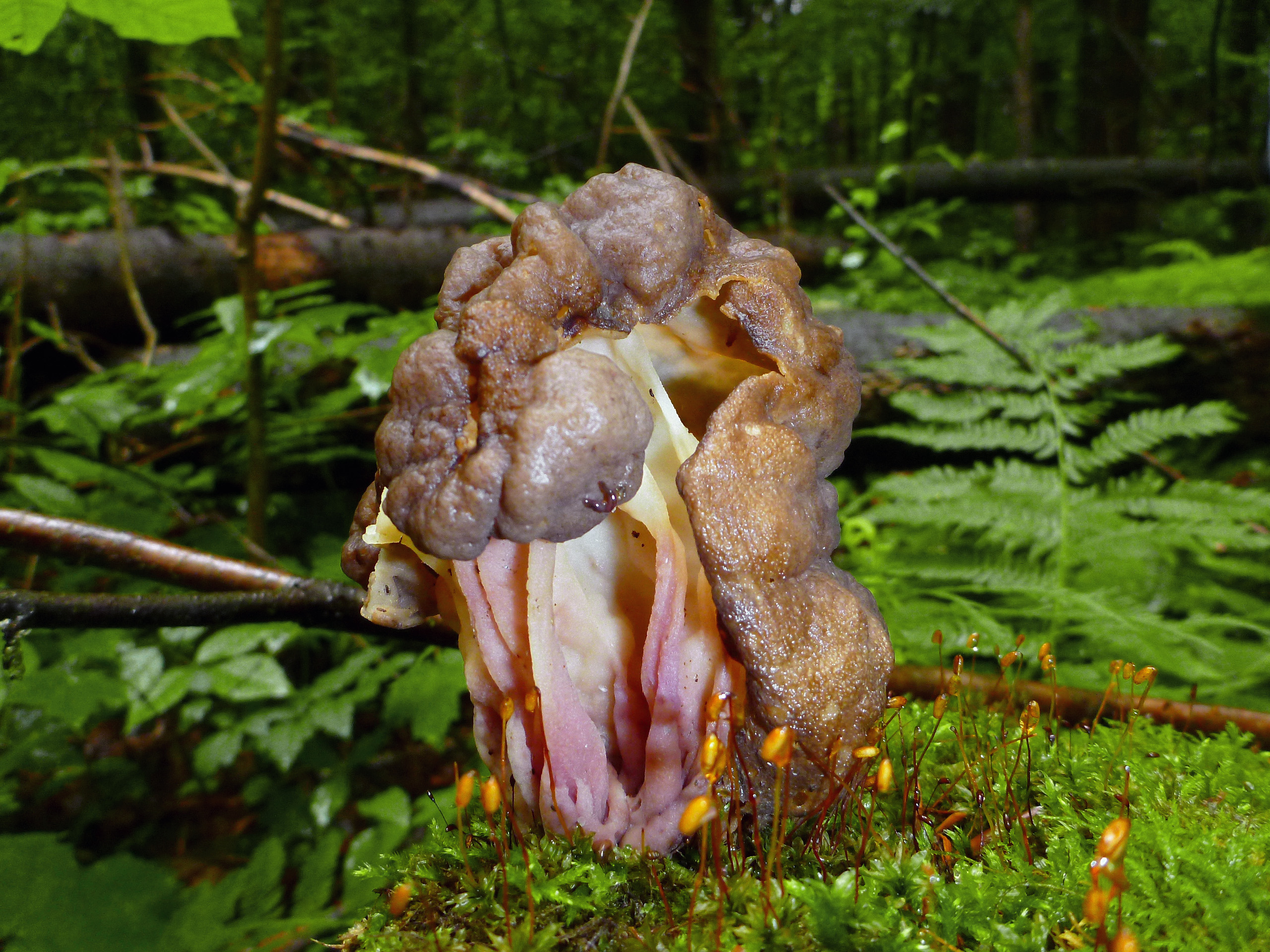 Pseudorhizina sphaerospora, improved white balance